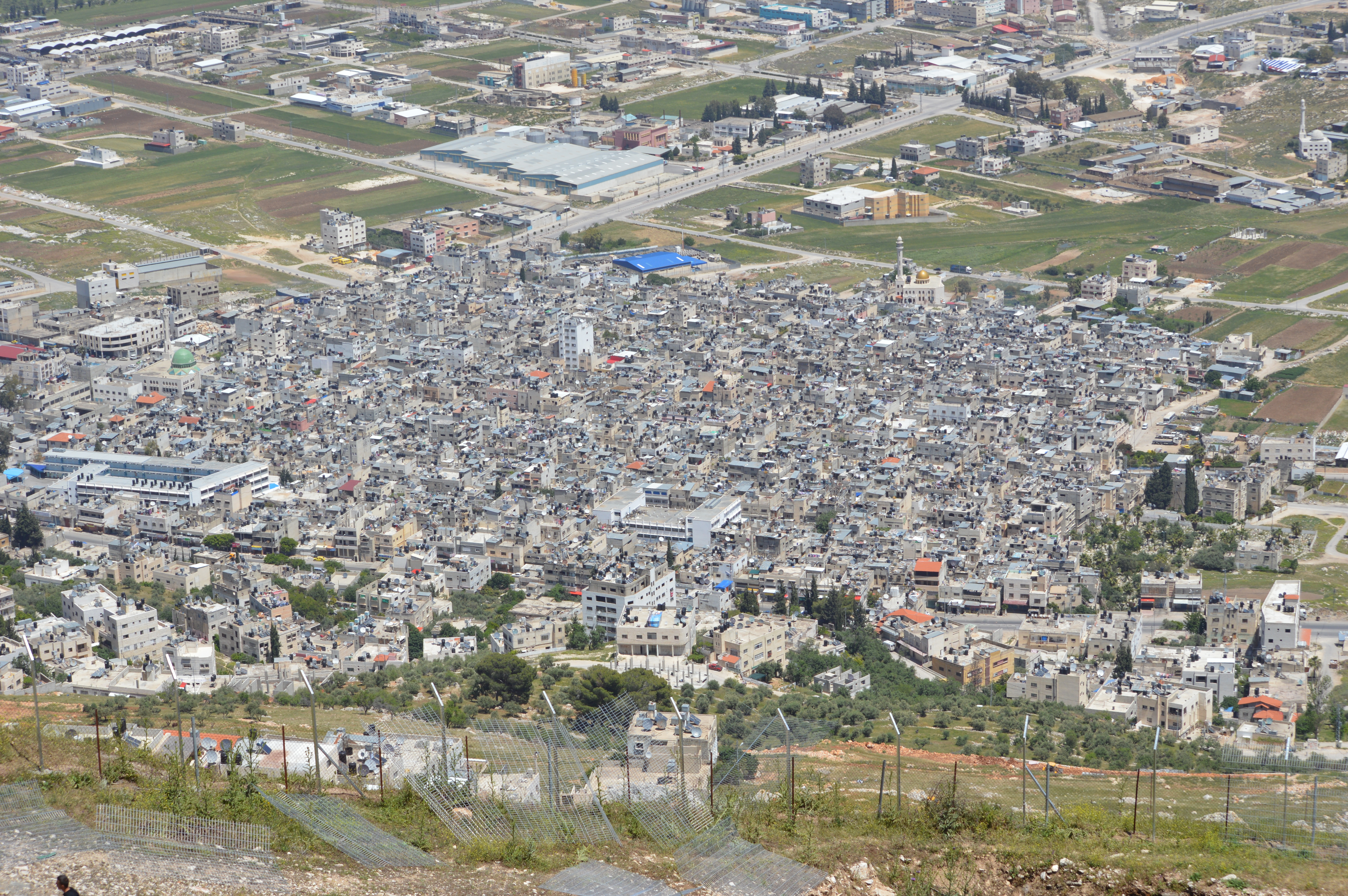 Balata, Nablus - view from Mount Gerizim